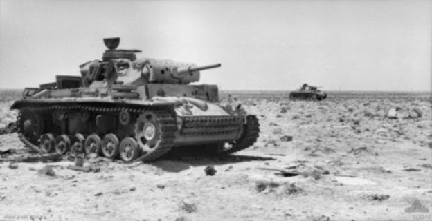 Two of seven German Panzer III destroyed by an Australian anti-tank battery near Tel el Eisa on 5 October 1942. A total of 17 German tanks were attacking.